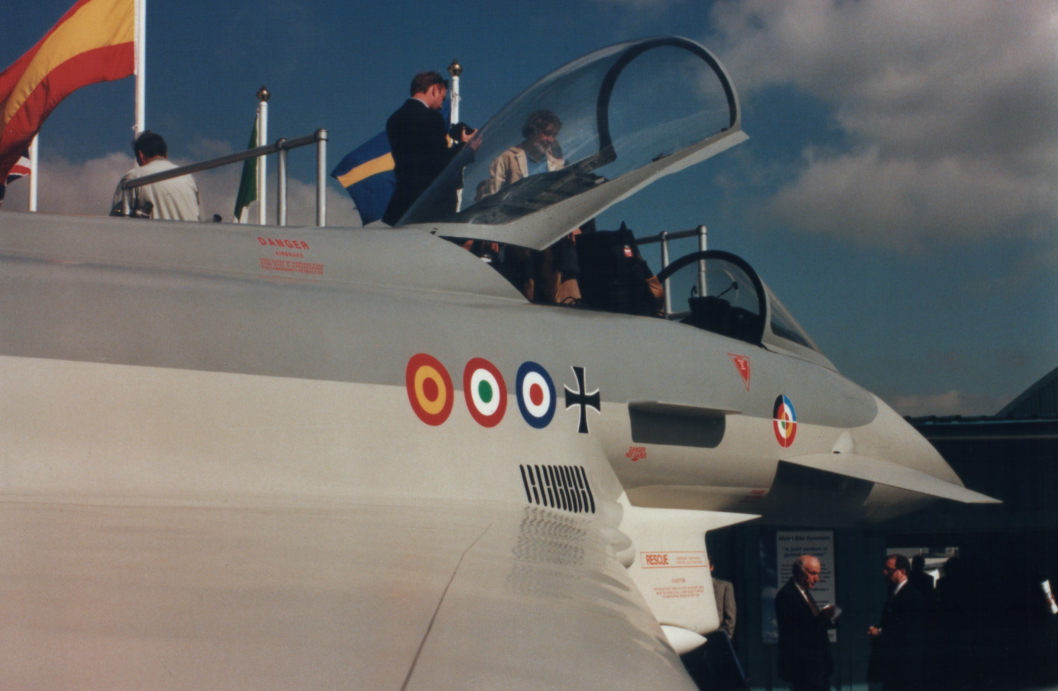 Typhoon full size mock-up at Farnborough 1996.